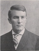 Photograph of Nebraska football coach Amos P. Foster